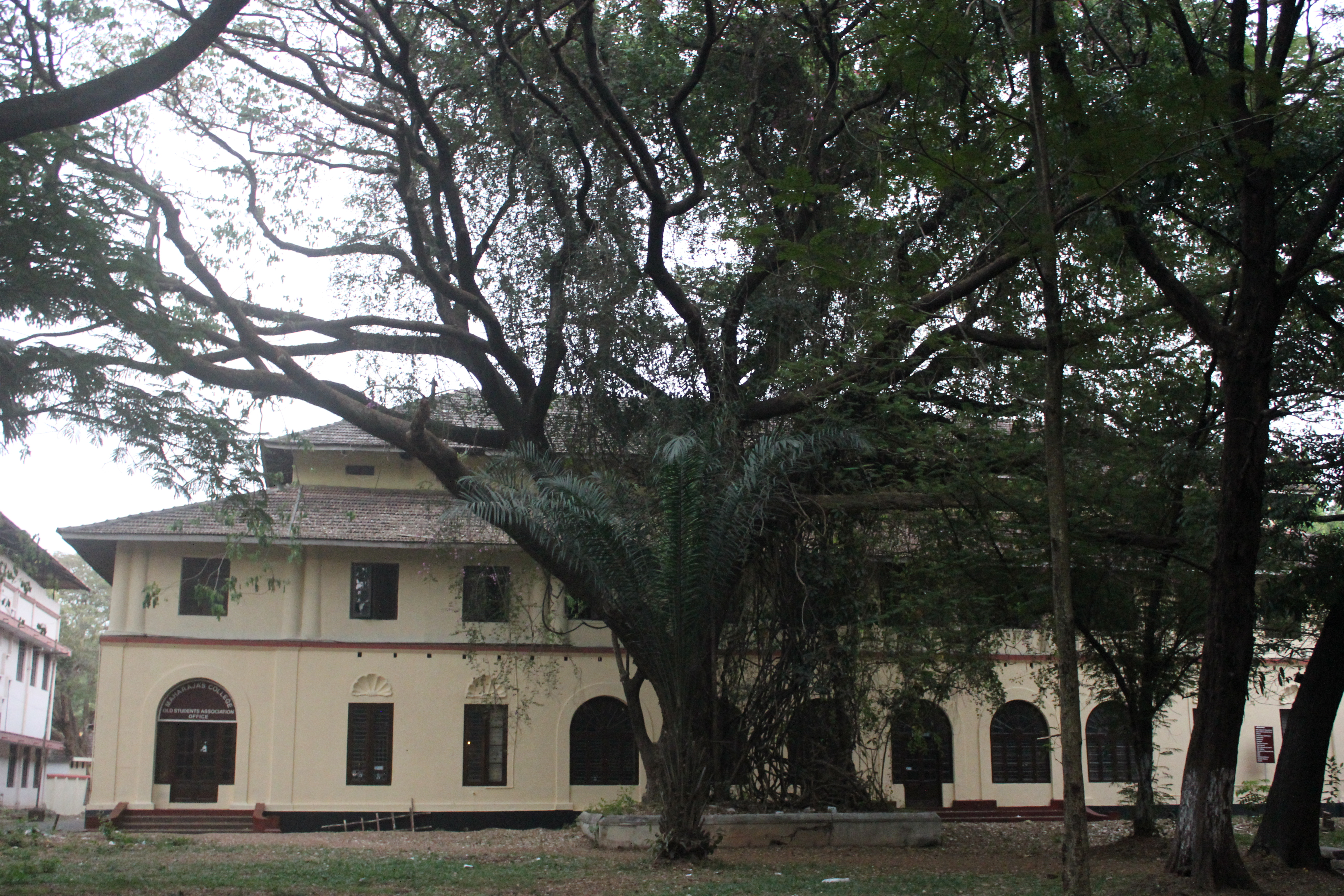 The oldest part of the campus